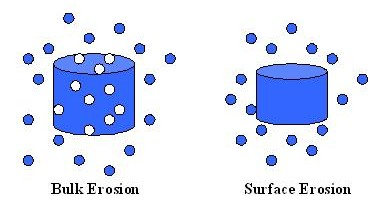 Created by Mmbyron|User:Mmbyron|Mmbyron 04:22, 29 March 2007 (UTC) March 28, 2007